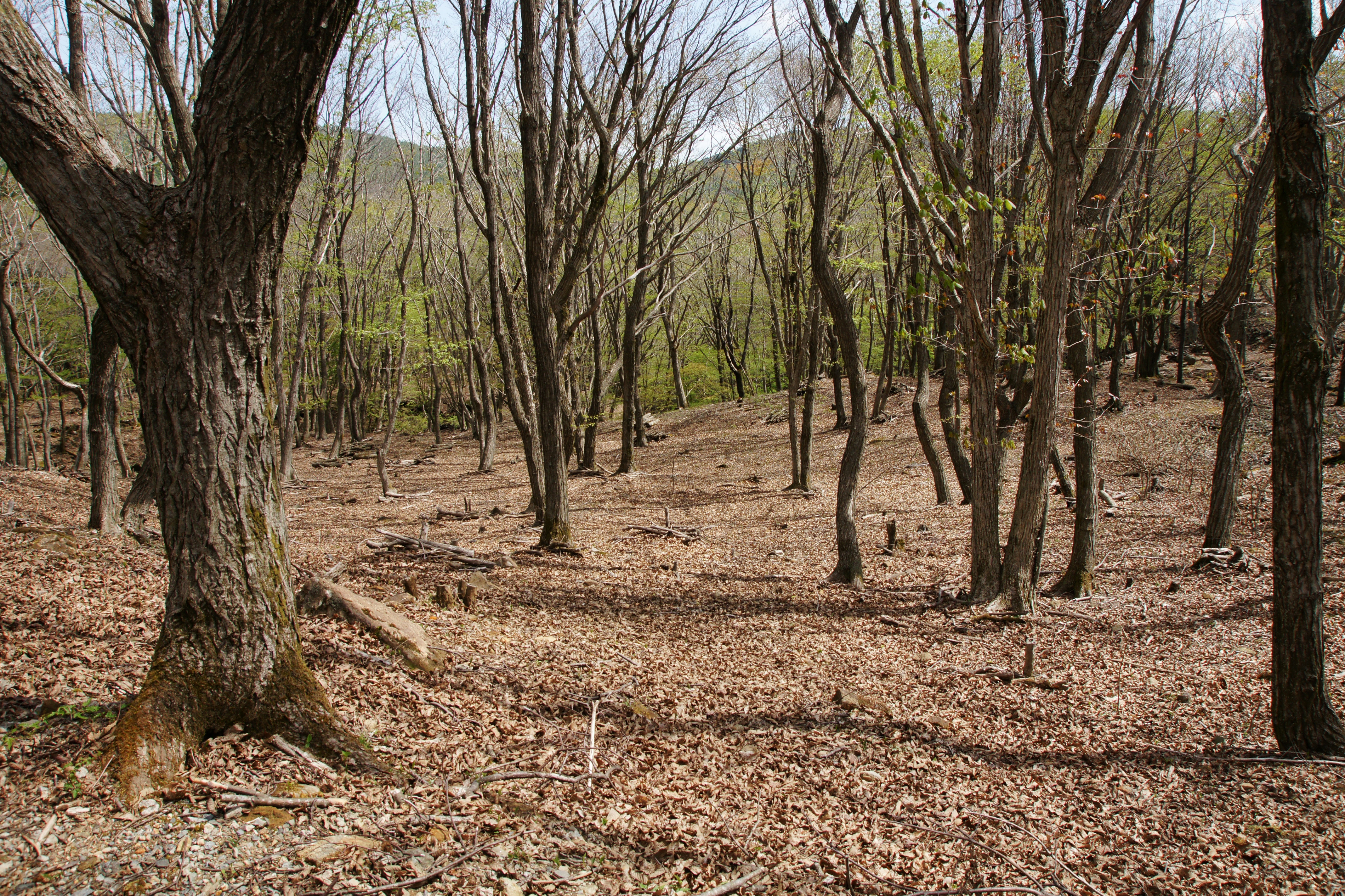 Mineyama highlands in Kamikawa, Hyogo prefecture, Japan.